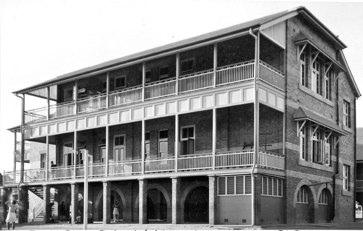 New Farm State School, additional story. (Education)